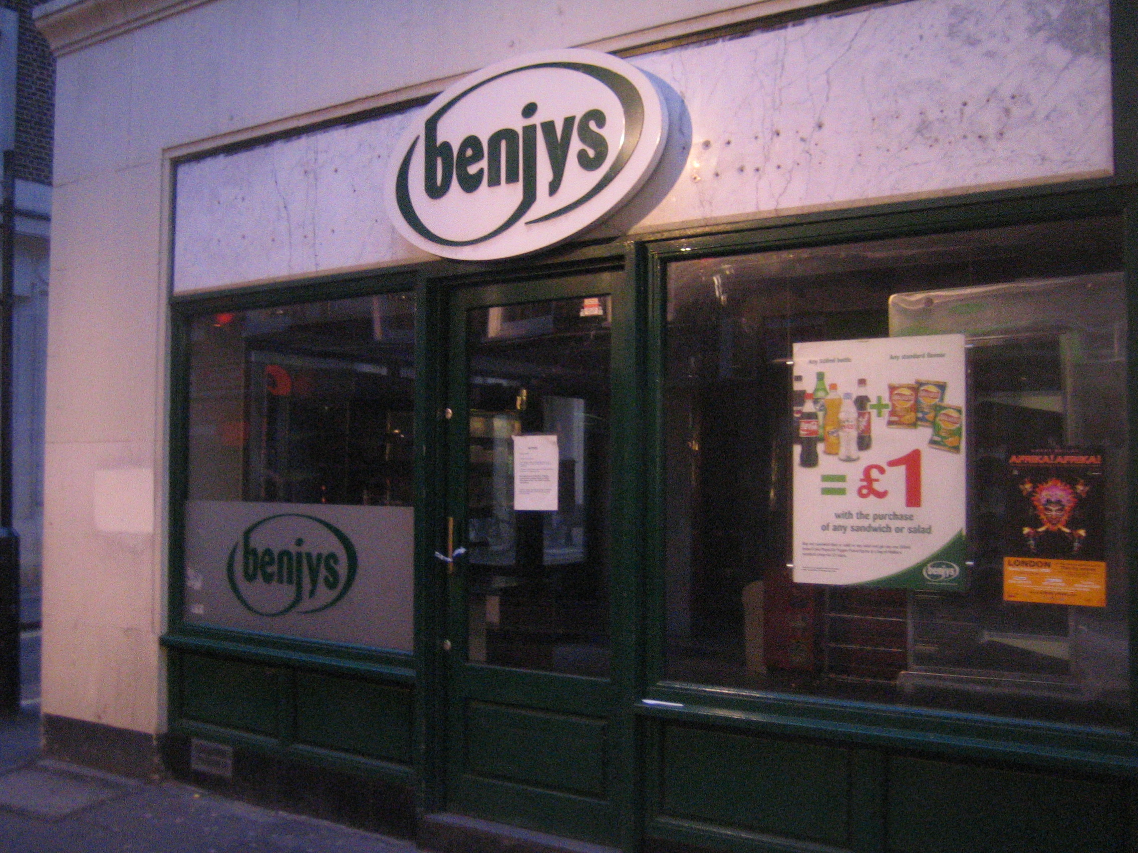 Closed Benjys sandwich ship, Beak Street, London, UK